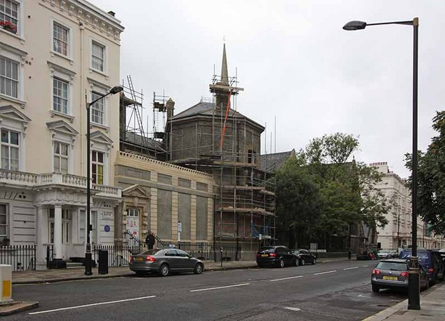 St Gabriel's Church, Warwick Square, London SW1